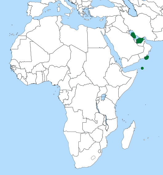 Breeding range of Phalacrocorax nigrogularis